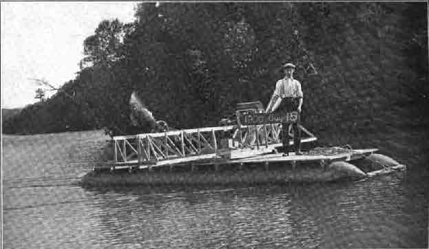 Dr. Alexander Graham Bell and Cyrus Adler with their aircraft engine test boat and early example of an airboat or hydrofoil, the Ugly Duckling. This picture is taken from a January 1907 issue of National Geographic.